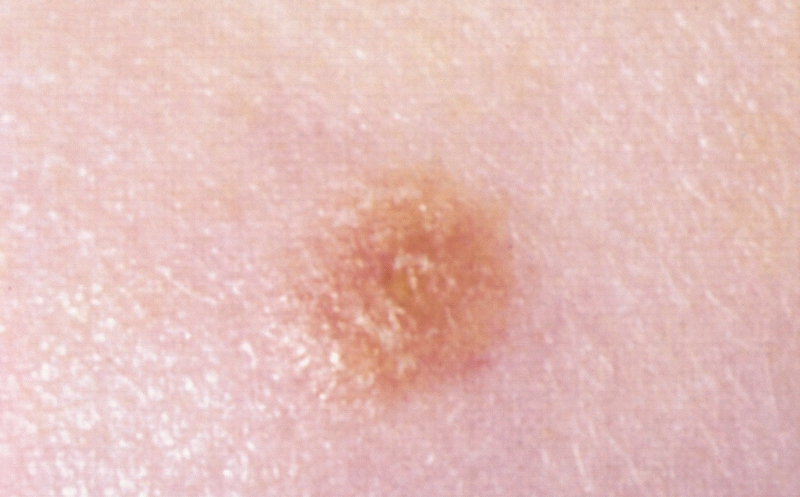 SKIN: VARIANTS OF BENIGN ACQUIRED NEVI SPINDLE AND EPITHELIOID CELL NEVUS (SPITZ NEVUS) The lesion is small, symmetrical, and uniformly pink-tan in color.